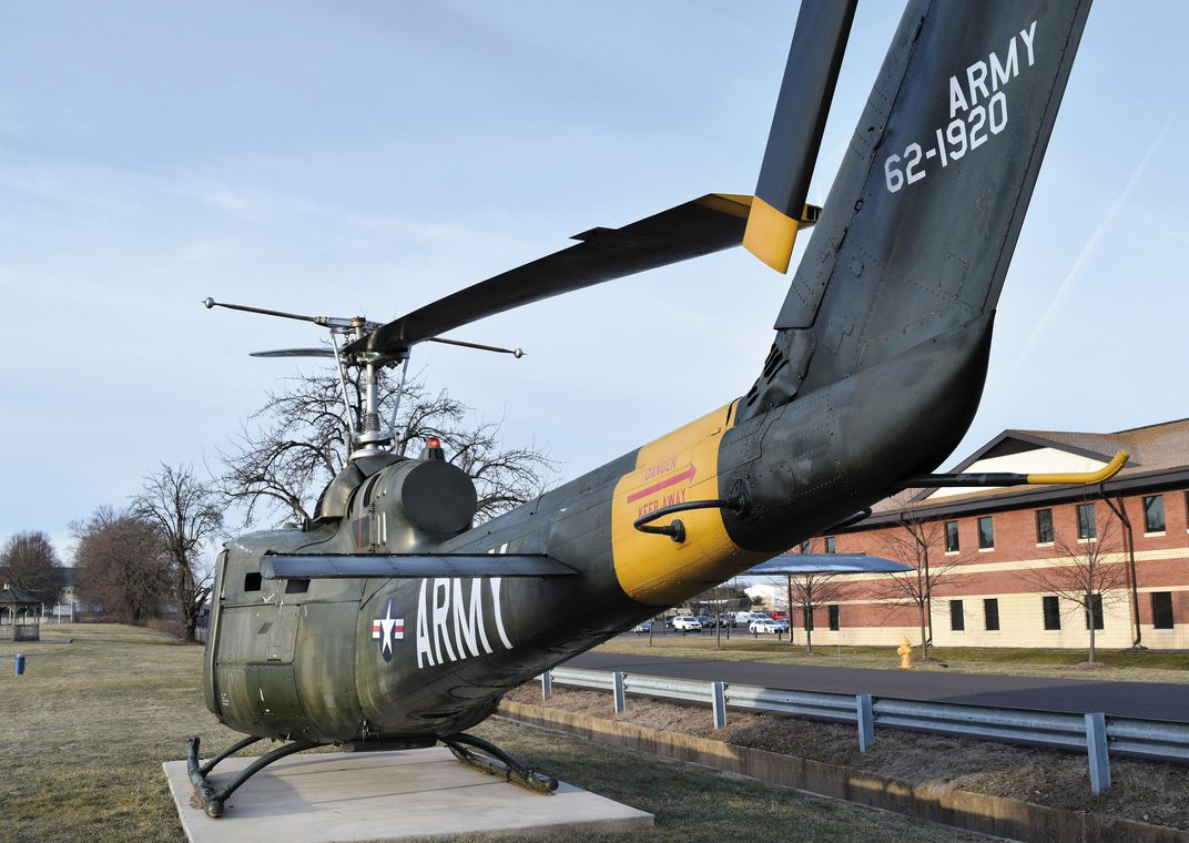 Rear view of the helicopter that Robert K. Preston stole in 1974